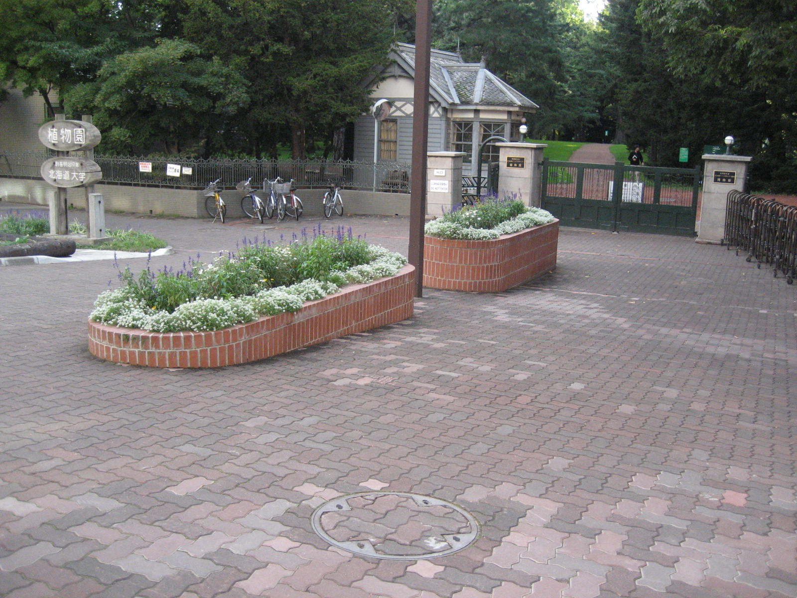 Hokkaido University Botanical Gardens in Sapporo